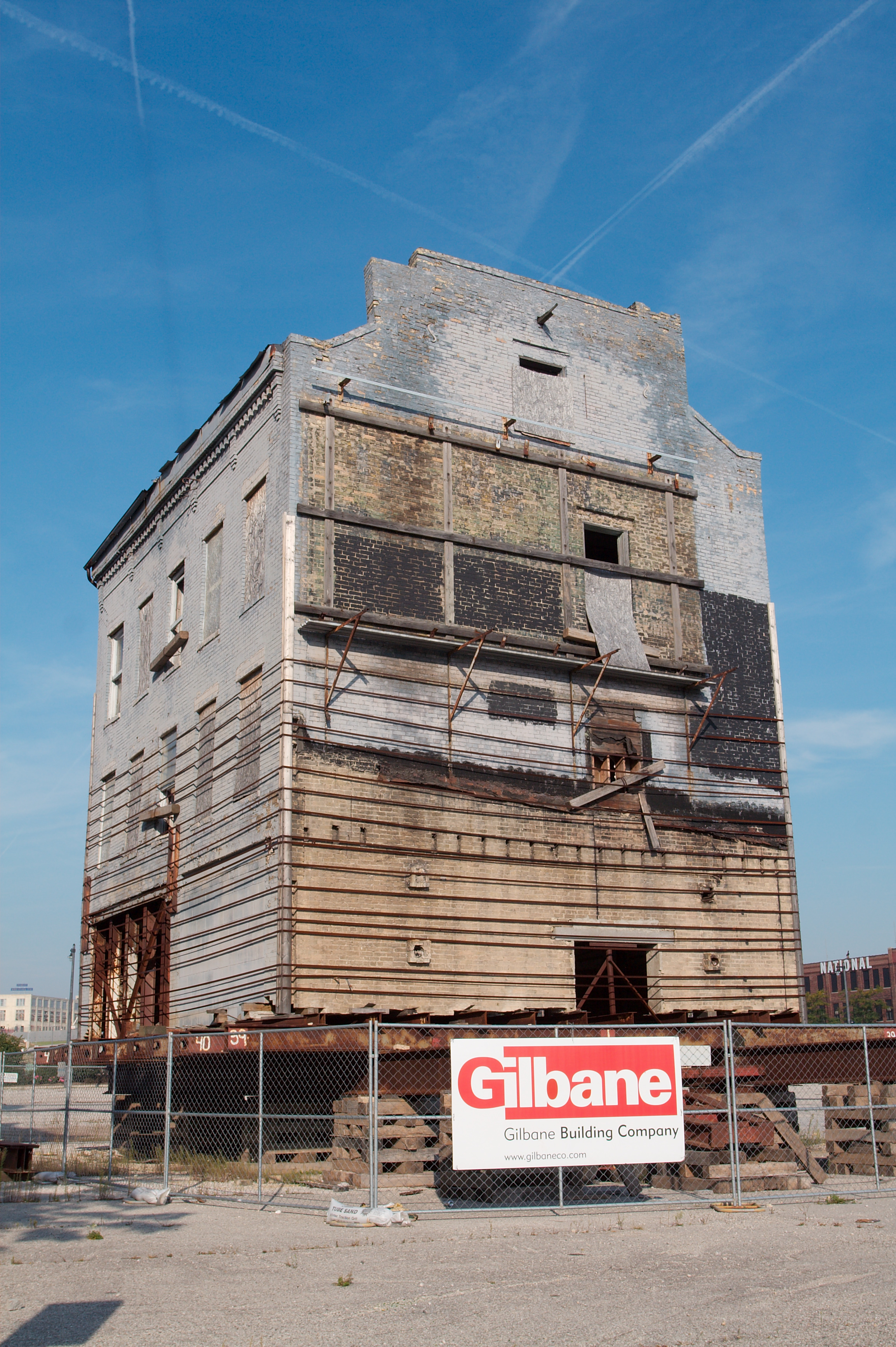 Milwaukee